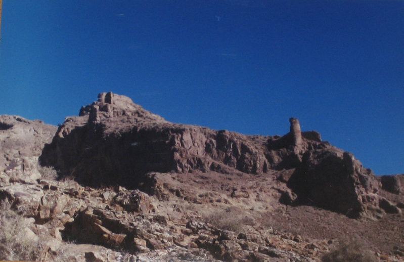 Lambesar fort, picture from South